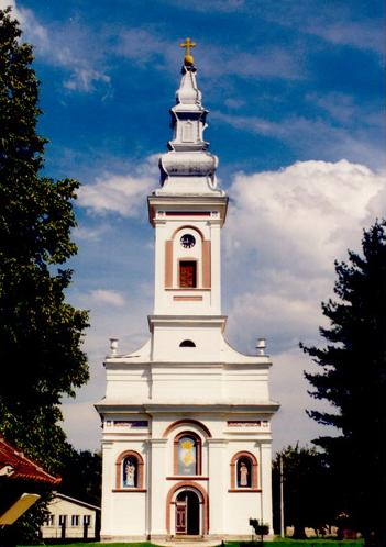 Serbian Orthodox Church in Mionica, Serbia/L'église orthodoxe serbe de Mionica, Serbie